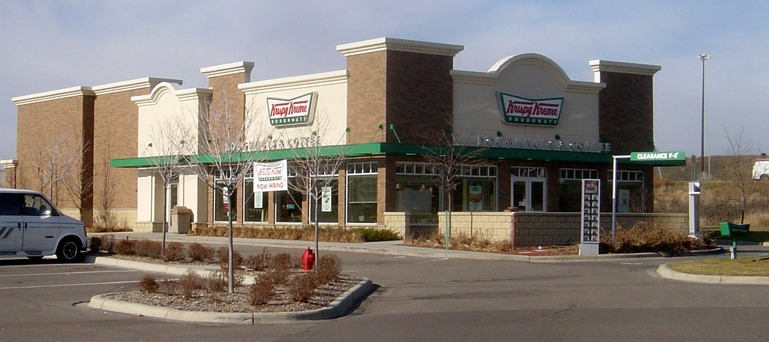 A Krispy Kreme in Eden Prairie. Photo taken by Bobak Ha'Eri, on November 16, 2006. Please observe license and properly cite in use outside Wikipedia.